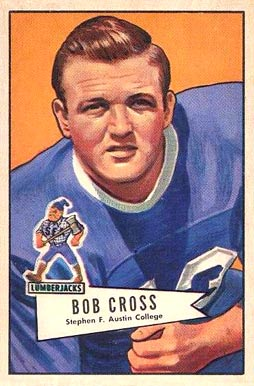 American football player Bobby Cross on a 1952 Bowman Large card.